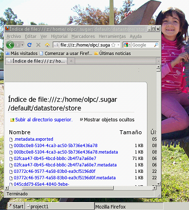 Firefox used as file navigator showing Sugar's Journal in Wine.xo